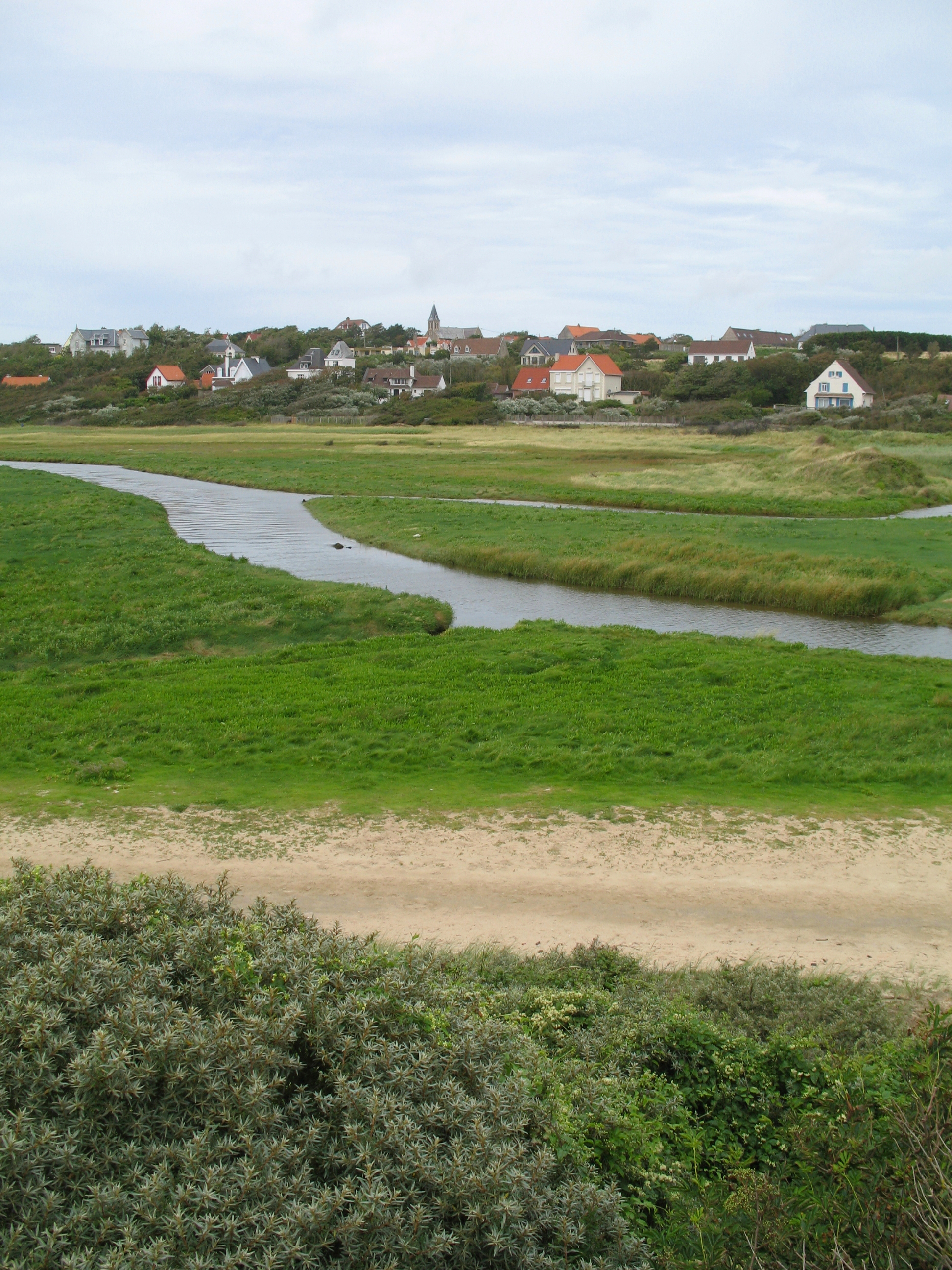 The Slack river and the village of Ambleteuse (Département du Pas-de-Calais, France)